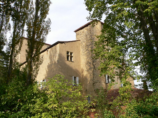 The castle of Ornézan